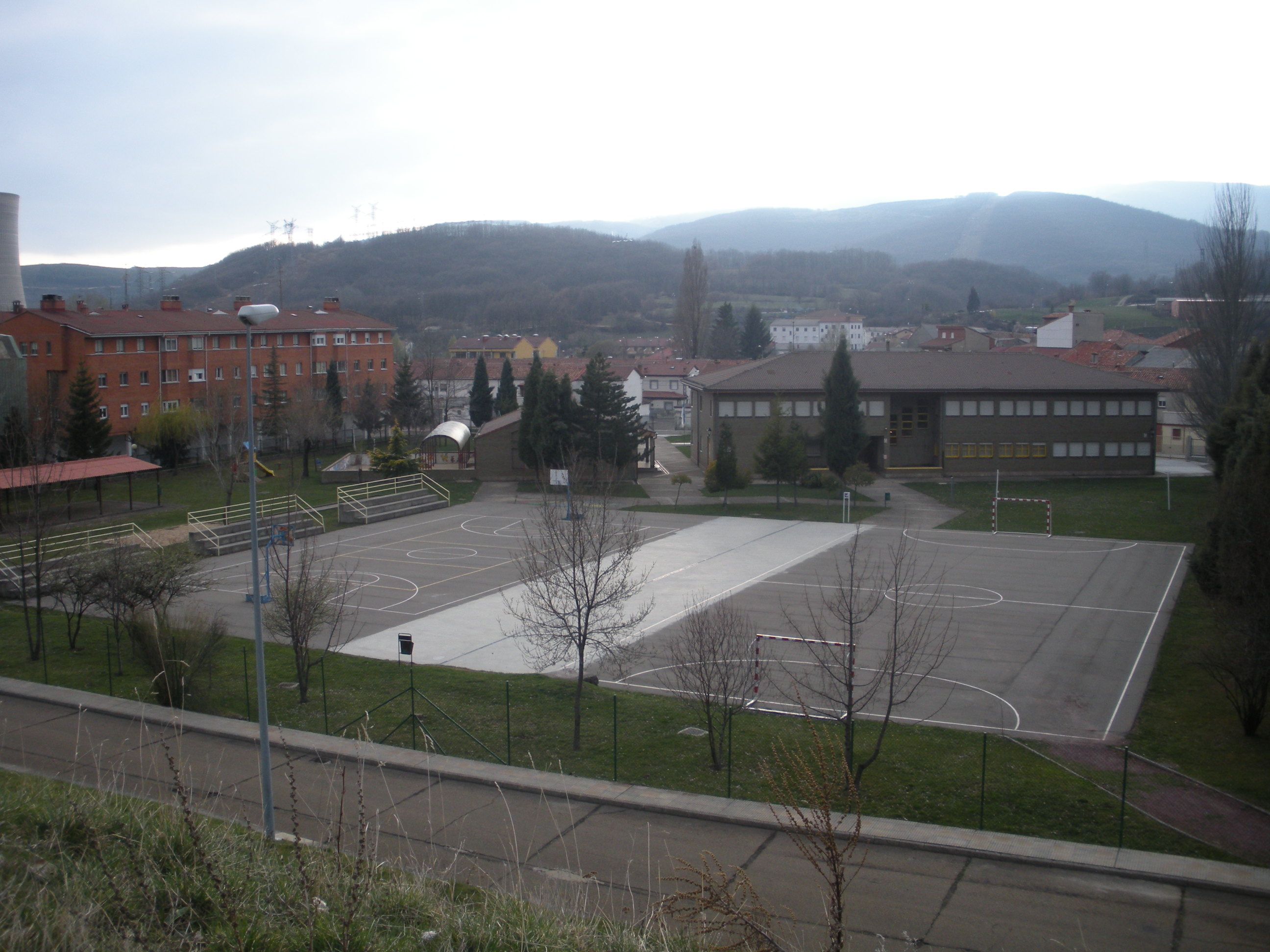 Colegio Público Nuestra Señora de Areños en Velilla del Río Carrión, Palencia (España)